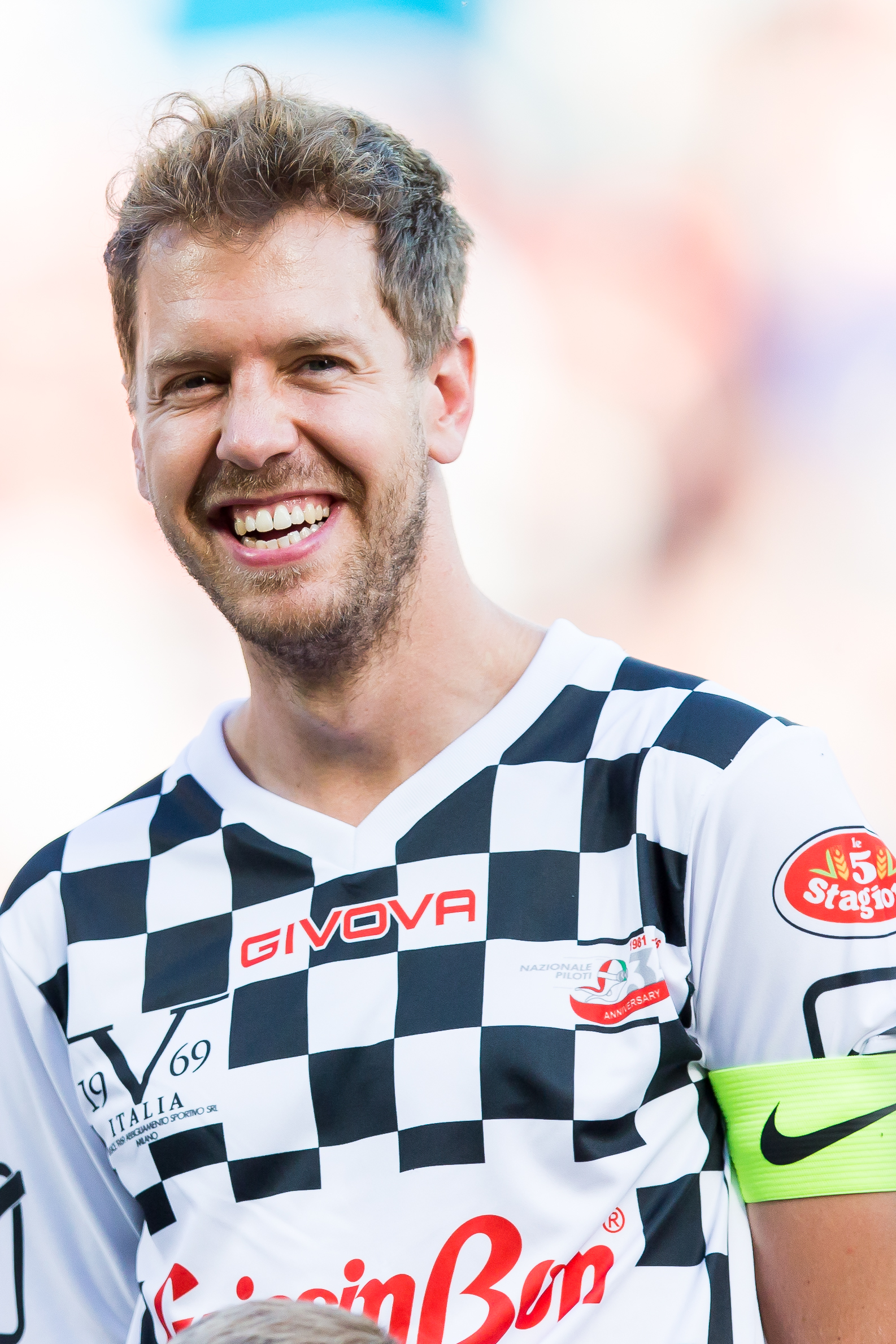 during football match between Nowitzki All Stars and Nazionale Piloti in honor of Michael Schumacher at Opel Arena, Mainz, Rheinland Pfalz, Germany on 2016-07-27, Photo: Sven Mandel